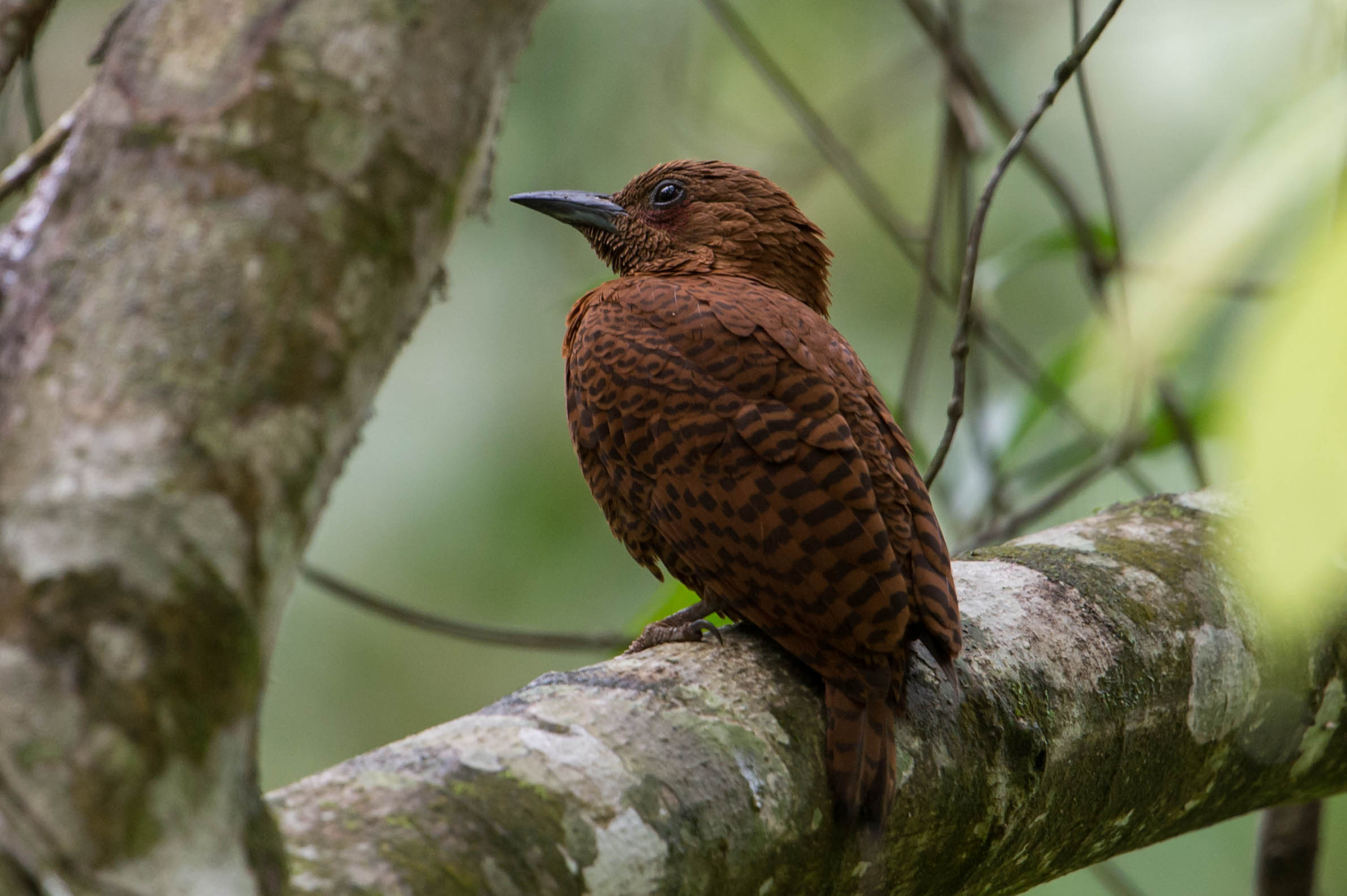 Rufous Woodpecker, M. b. phaioceps, Kaeng Krachan, Phetchaburi, Thailand